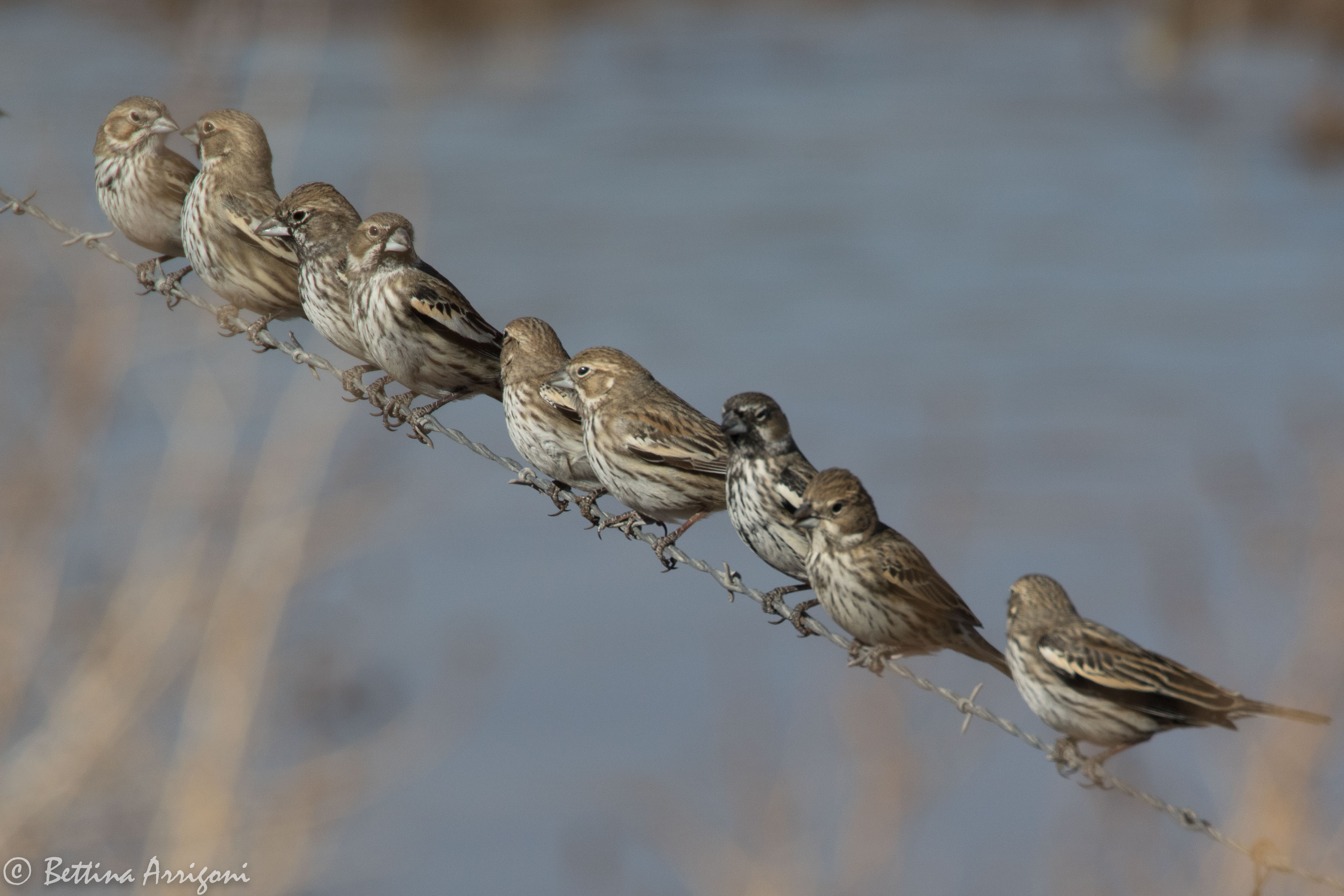 Lark Bunting | Willow Tank | Portal | AZ|2018-01-19|11-25-09.jpg